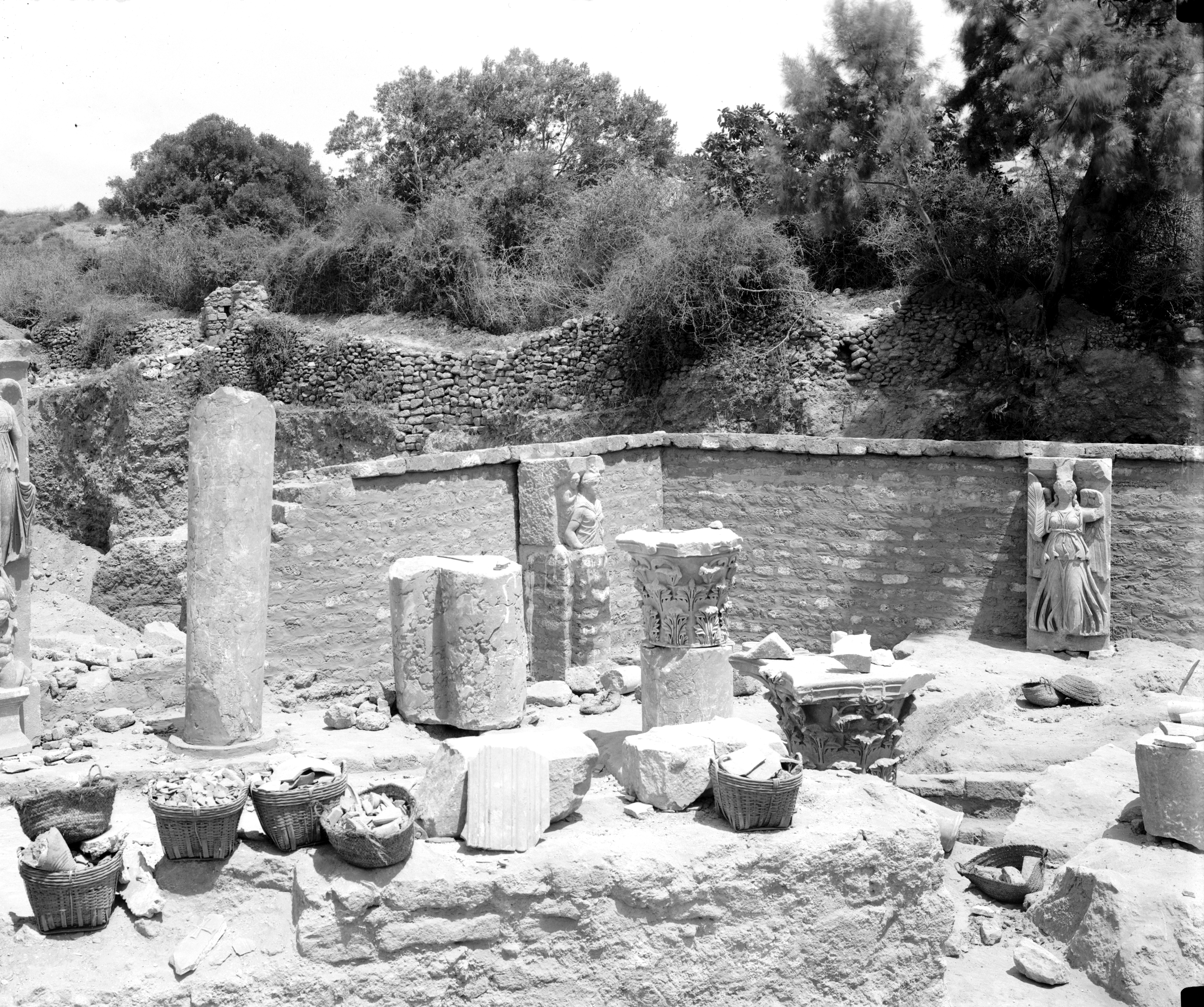 Ruins at Askalon, June 1921.